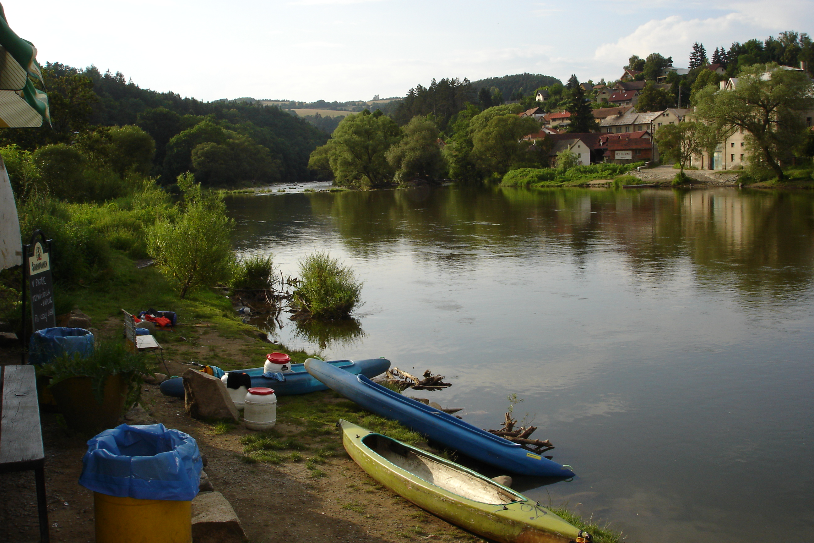 River Sázava in Kamenný Přívoz (Central Bohemian Region, Czech Republic).